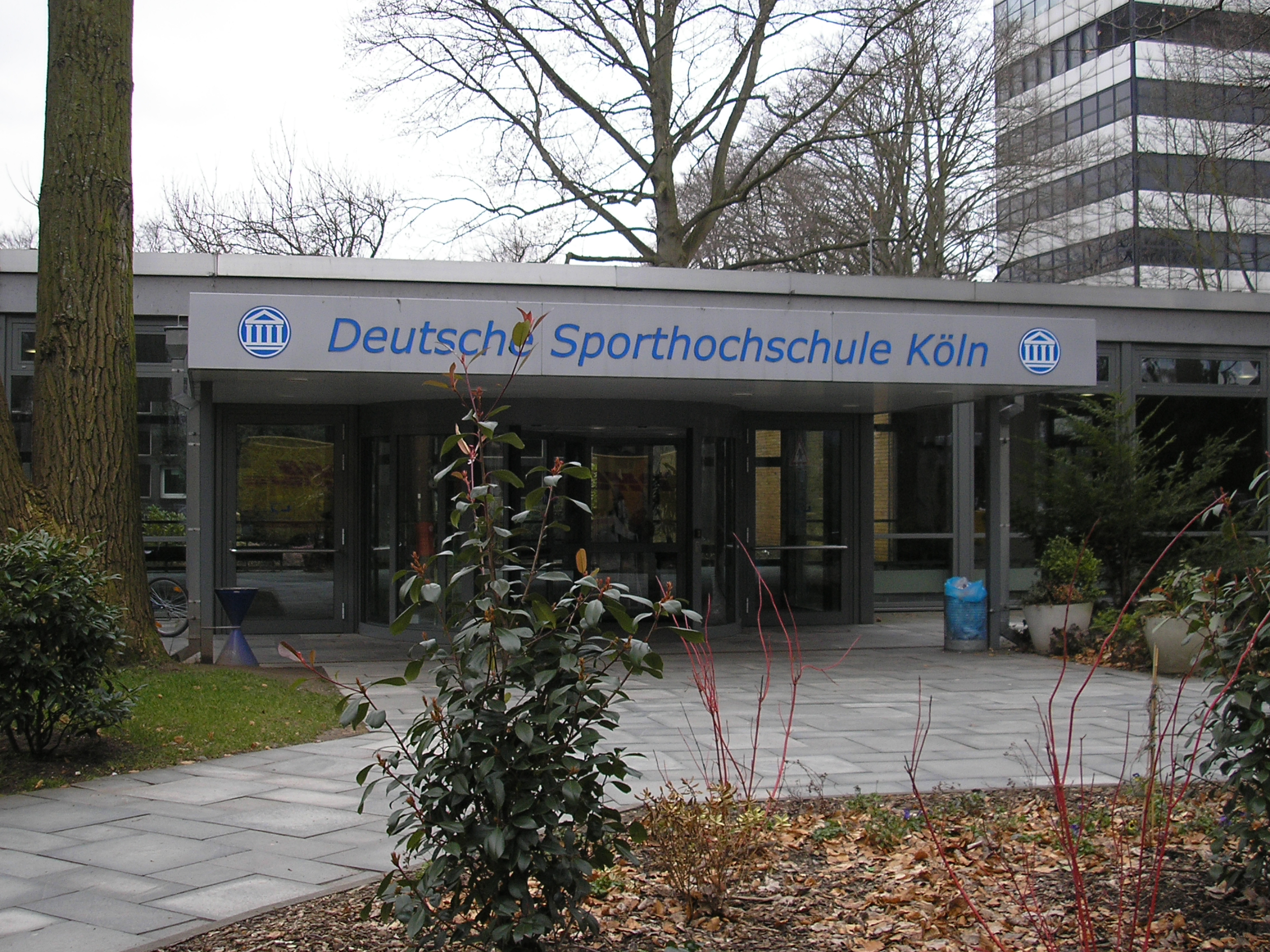 German Sport University Cologne